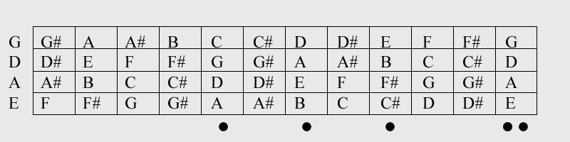 Note positions on a right-handed 4-string bass in standard EADG tuning. Please learn this before coming for your second lesson. You have to know this first it wil make my task easier. Thank you.